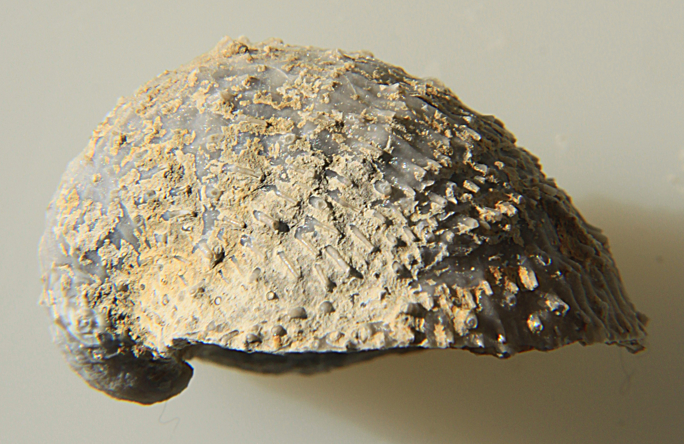 A Dictyoclostus bassi lampshell, pedunculate valve, Order Productida, Family Productidae, 23mm measured along the axis, collected from the Pueblo Formation, Wolfcamp Series, Shackleford County, Texas, USA, from the Lower Permian (Asselian)